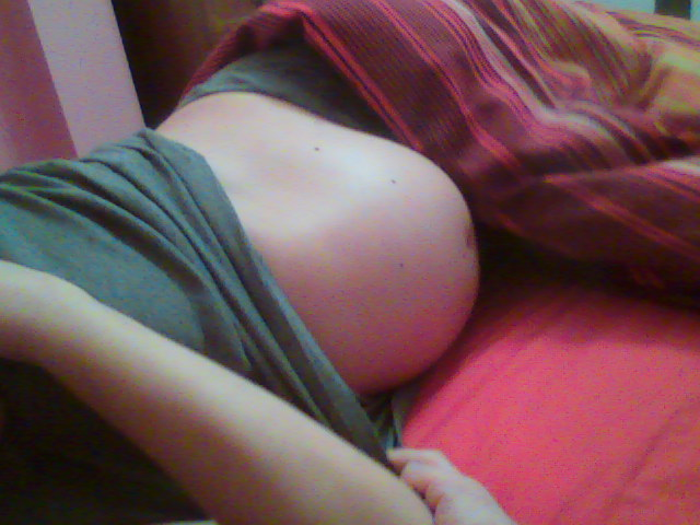 pregnancy at 8th month